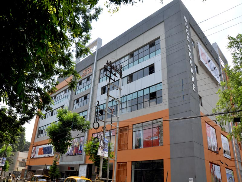 The Wood Sqaure Mall at Narendrapur, Rajpur Captioned As {}